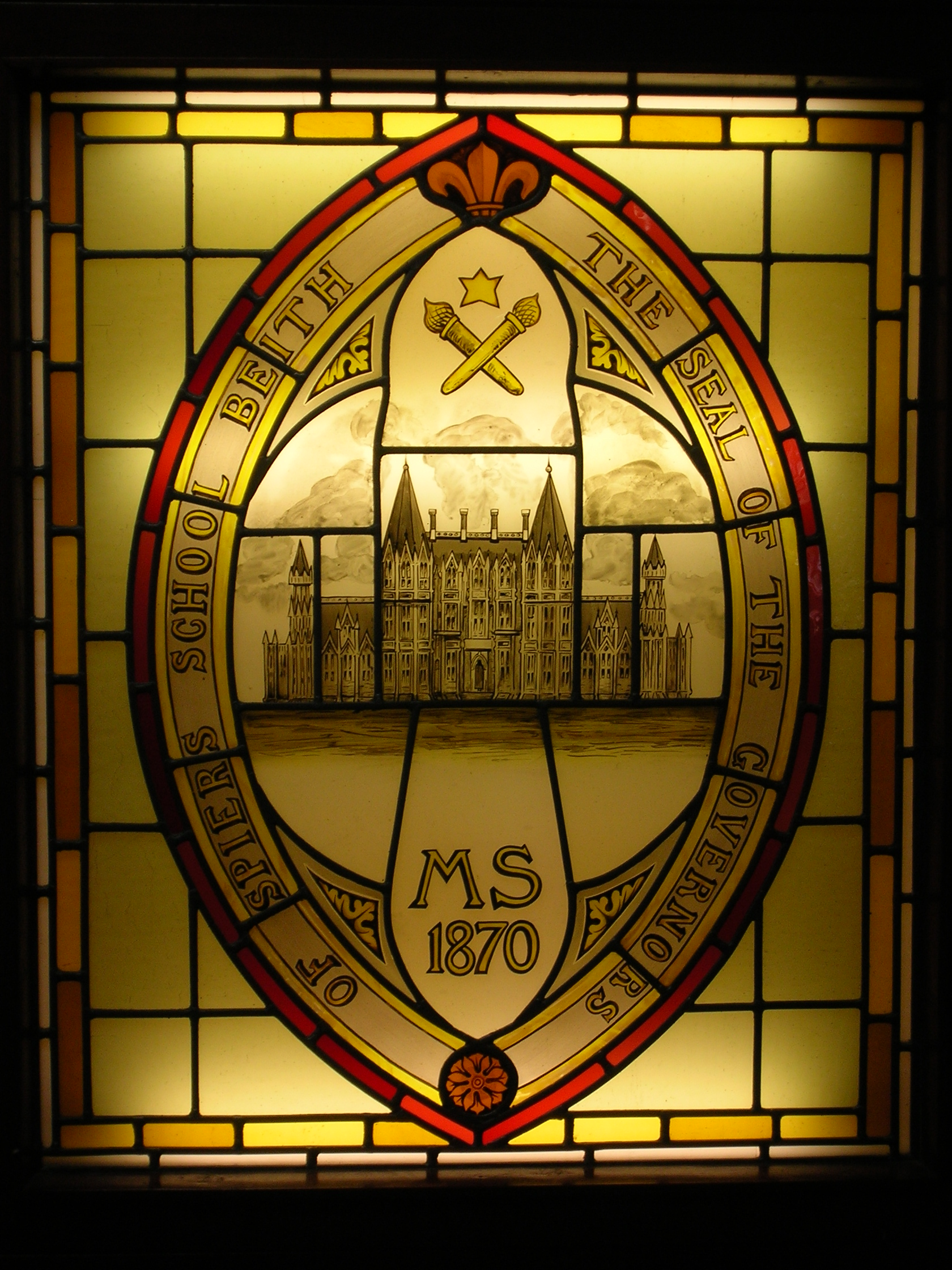 Speir's school seal design at Beith Primary, North Ayrshire, Scotland.